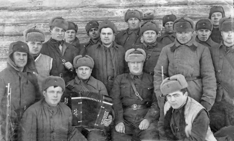 Kovalchuk with soldiers of a 447 artillery regiment.